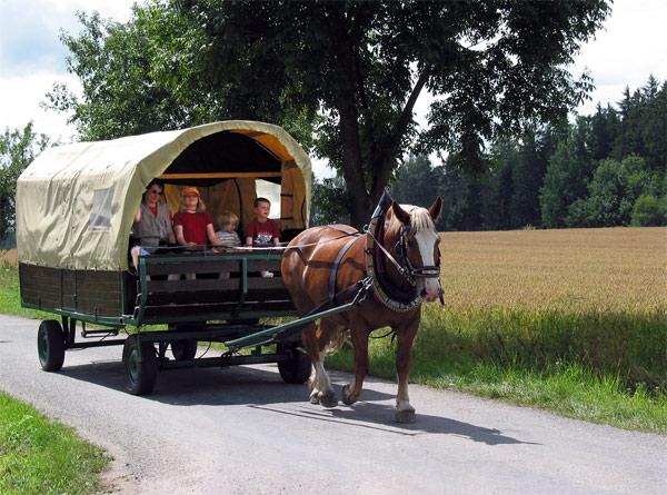 Description: Covered wagon in Czechia Source: Selbst fotografiert, 19.07.2005 Lodherov Photographer/Painter: Ralf Ziegler, --RalfZi 10:33, 10 August 2005 (UTC)